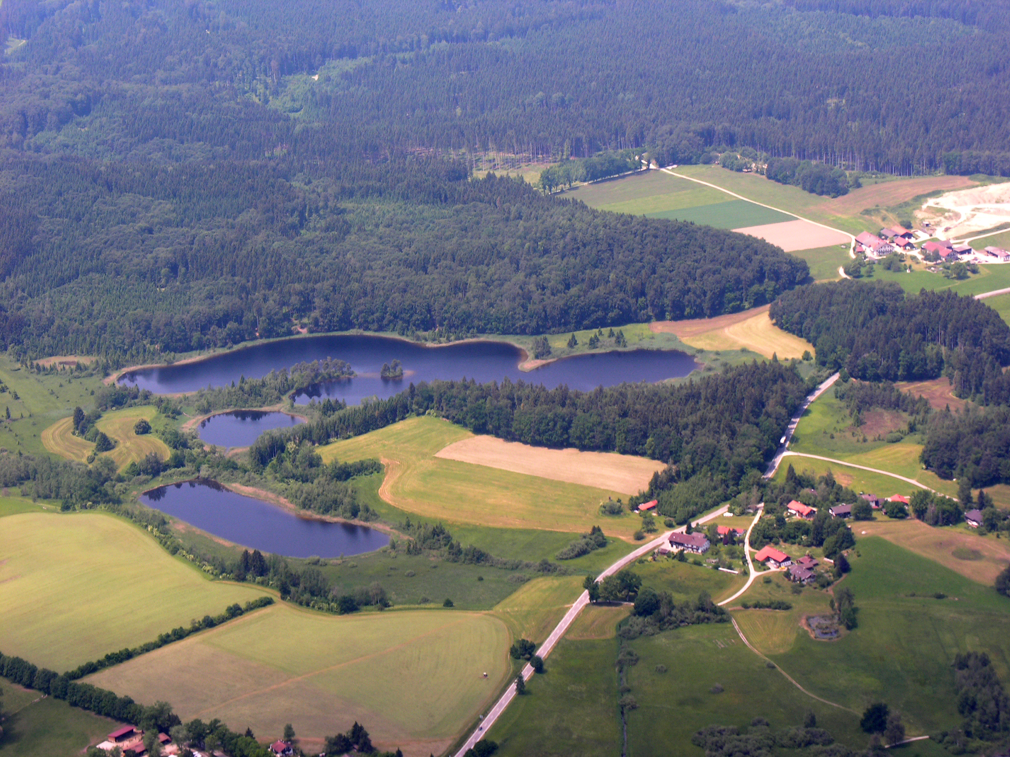 Germany, Bavaria, Near Neubichl